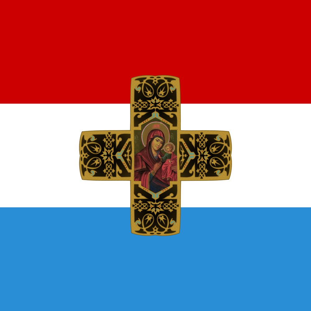 Samara flag used by Bulgarian volunteer army in Russo-Turkish War (1877–1878)